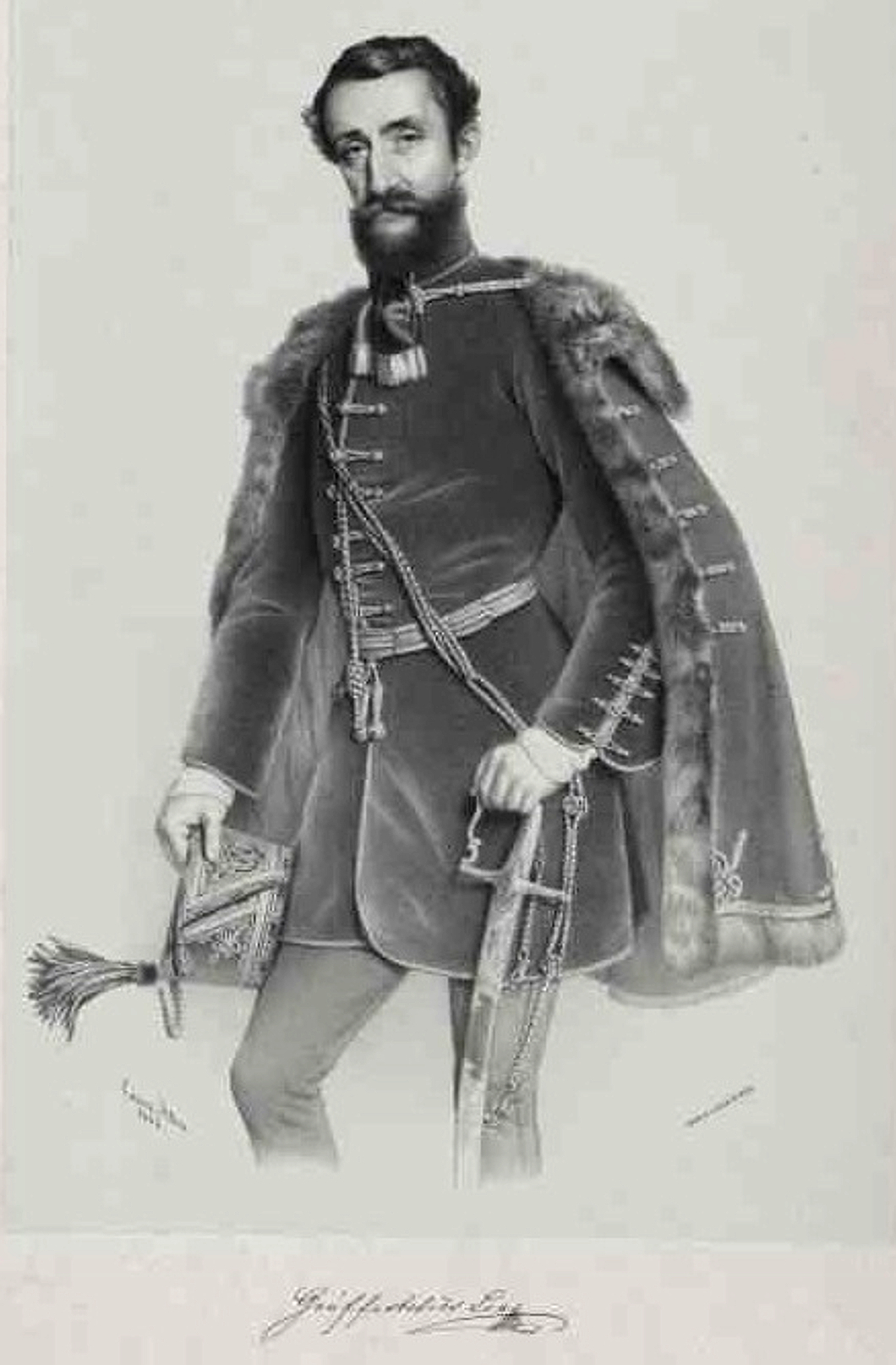 Tolnai gróf Festetics Leó (Pécs, 1800. október 8. – Budapest, 1884. november 15.) a pesti Nemzeti Színház igazgatója, zeneszerző.